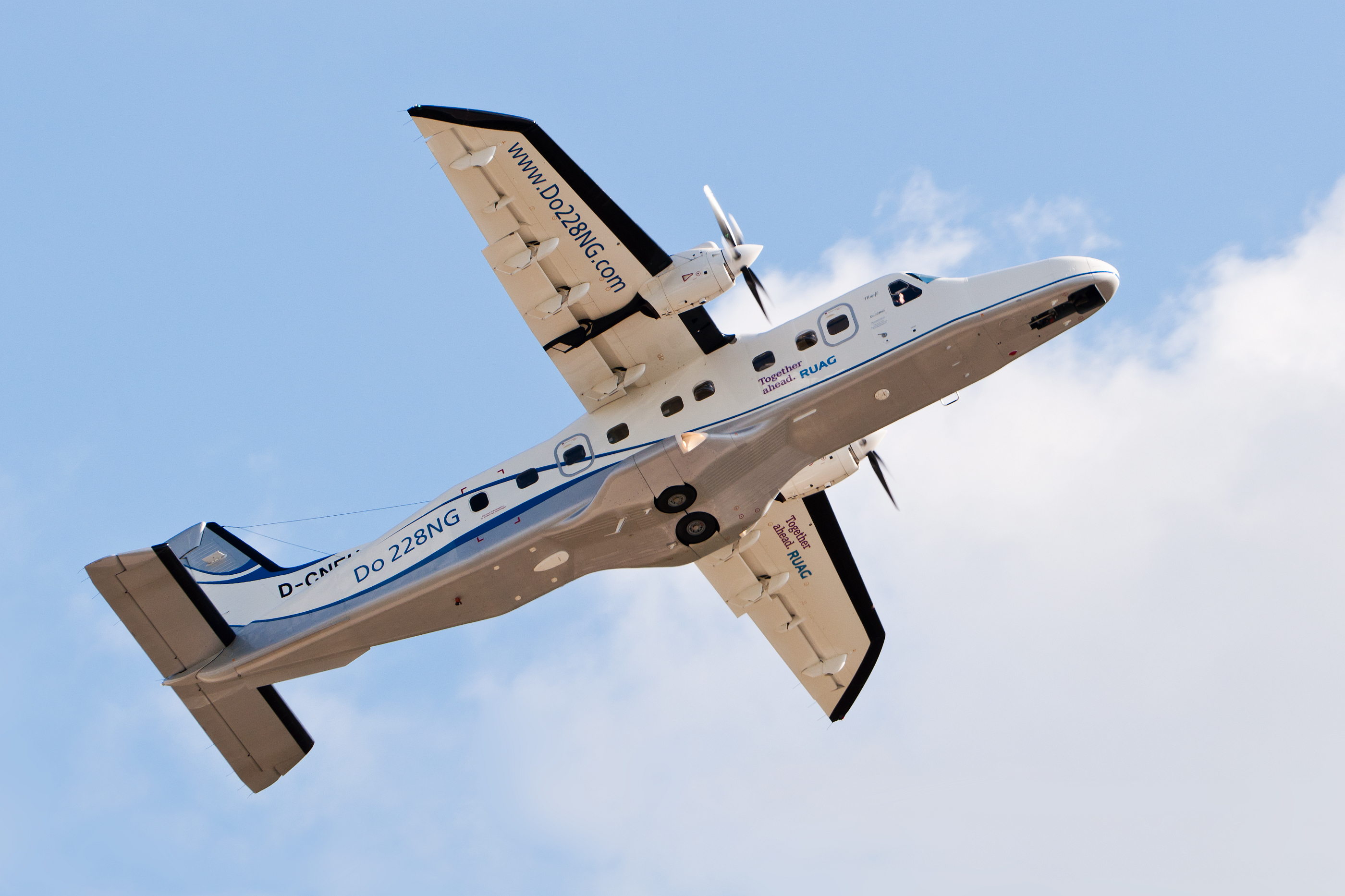 Dornier Do 228NG (D-CNEU), produced by RUAG Aviation, flying a display at ILA Berlin Air Show 2012.